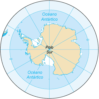 South Pole in Spanish